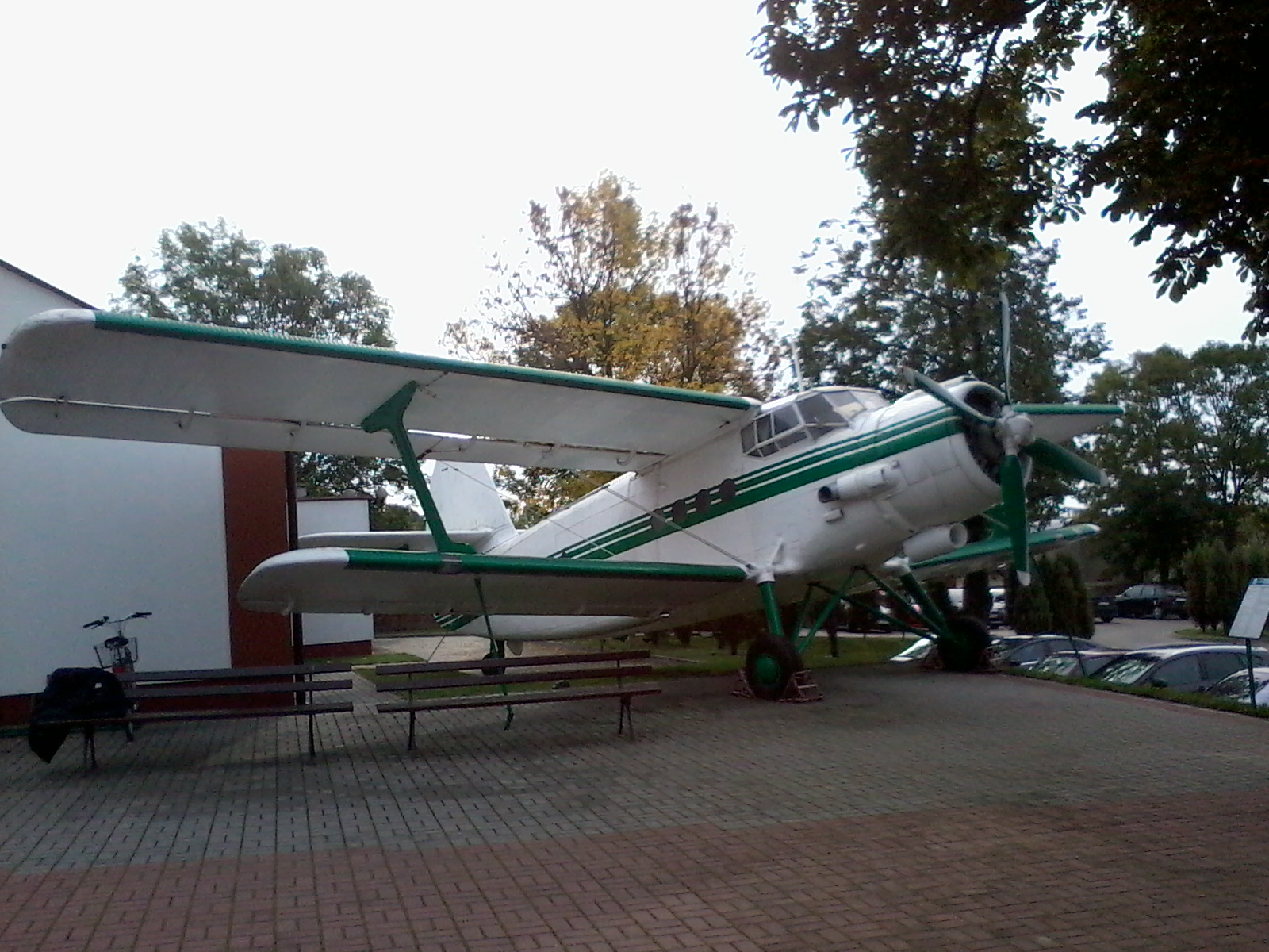 An-2 in front of The State School of Higher Education in Chełm (Poland)